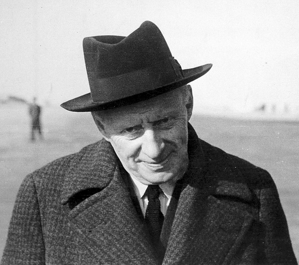 Charles M. Wilson in desert setting